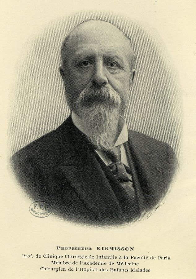 Edouard Francis Kirmisson